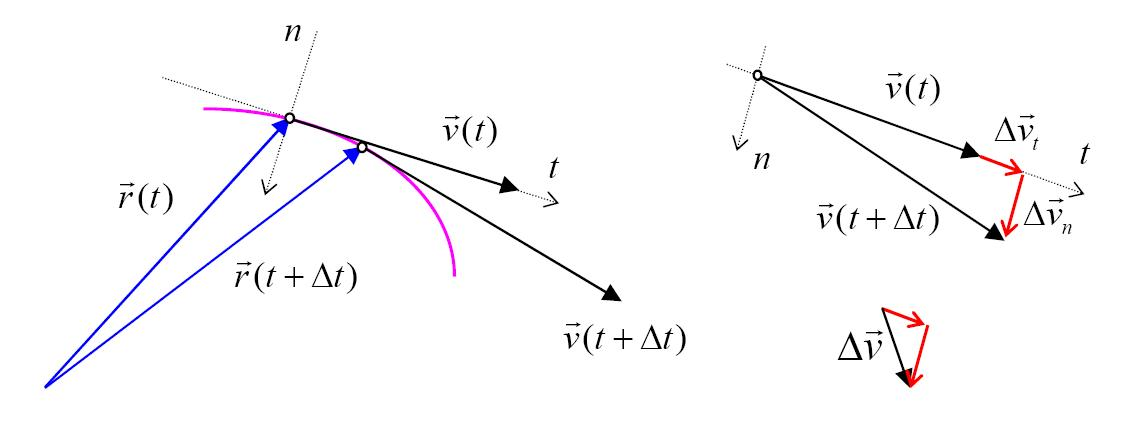 Decomposition of the velocity change into tangential and normal component in order to explain acceleration components